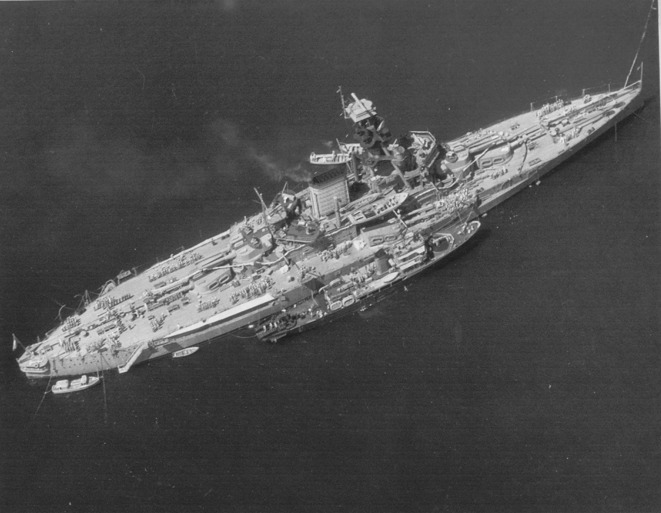 The Brazilian battleship Minas Geraes, possibly during the Second World War and certainly after its mid-1930s modernization.